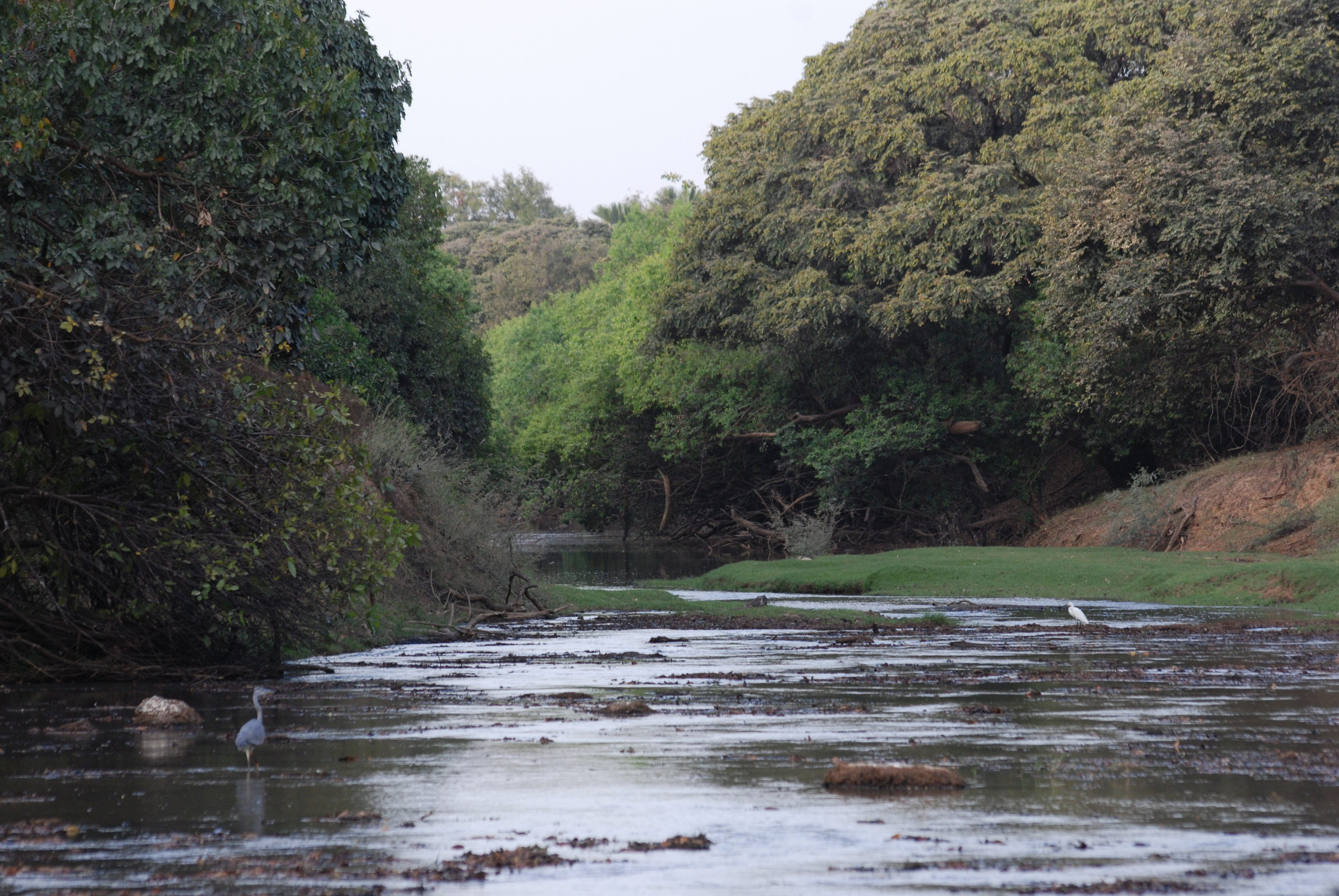 Pendjari river in the dry-season, in the Pendjari NP, frontier to Burkina Faso (left Benin, right side Burkina Faso)